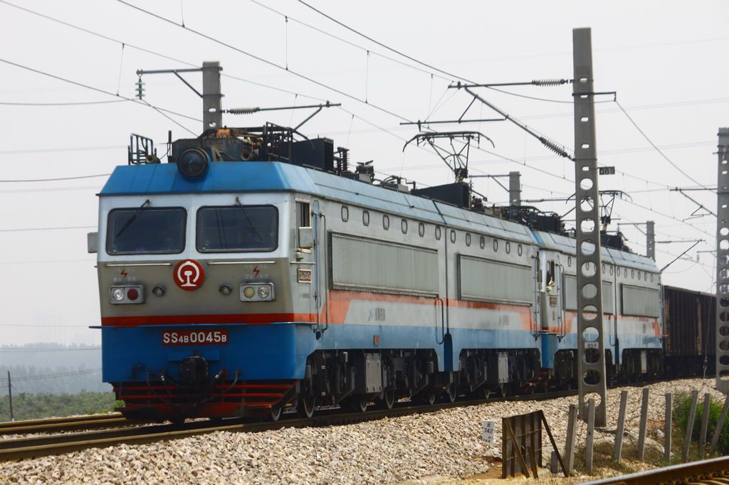 SS4B0045